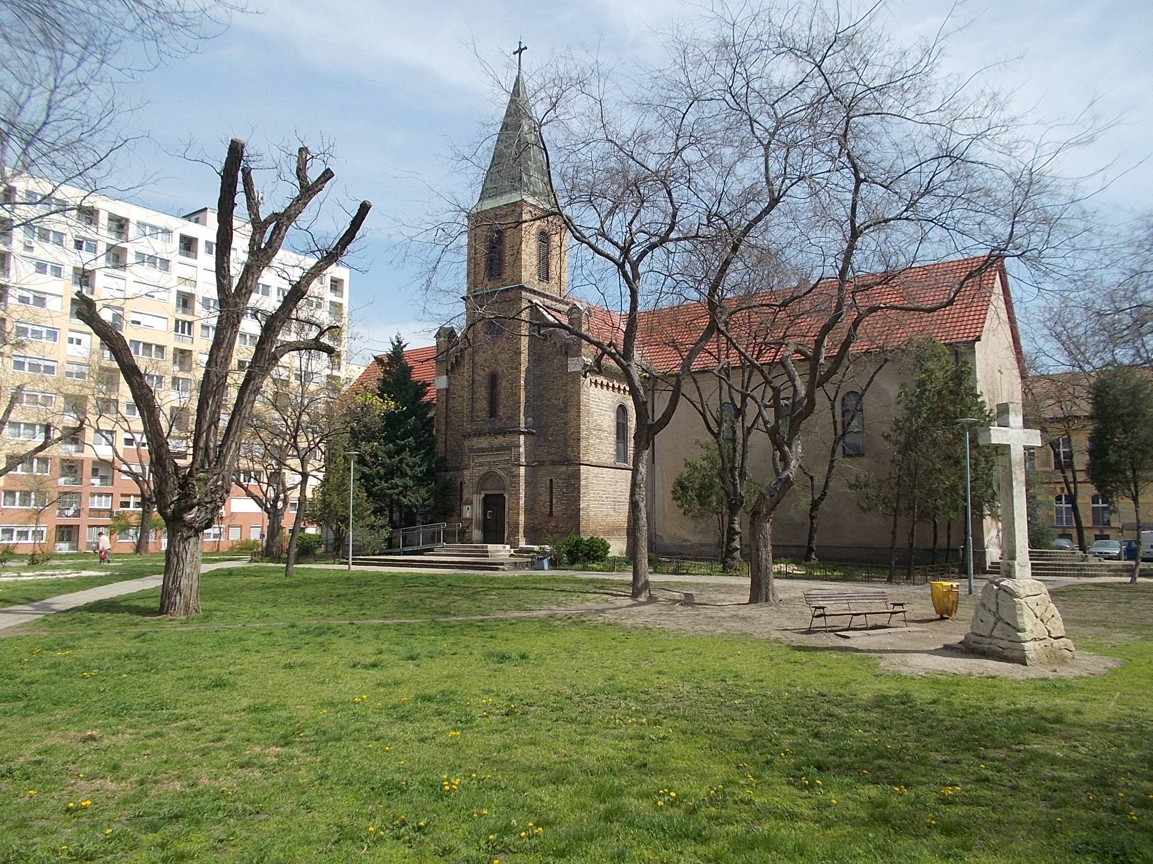 Saint Stephen of Hungary Church. According to József Pucher's plans, in 1887, the neo-Romanesque stone church was built in honor of King Stephen Stephen, which was extended by a side vessel in 1949. In 1971 a parish house was built in connection with the church. - Álmos vezér tere, Rákosfalva neighborhood, Zugló, Budapest.